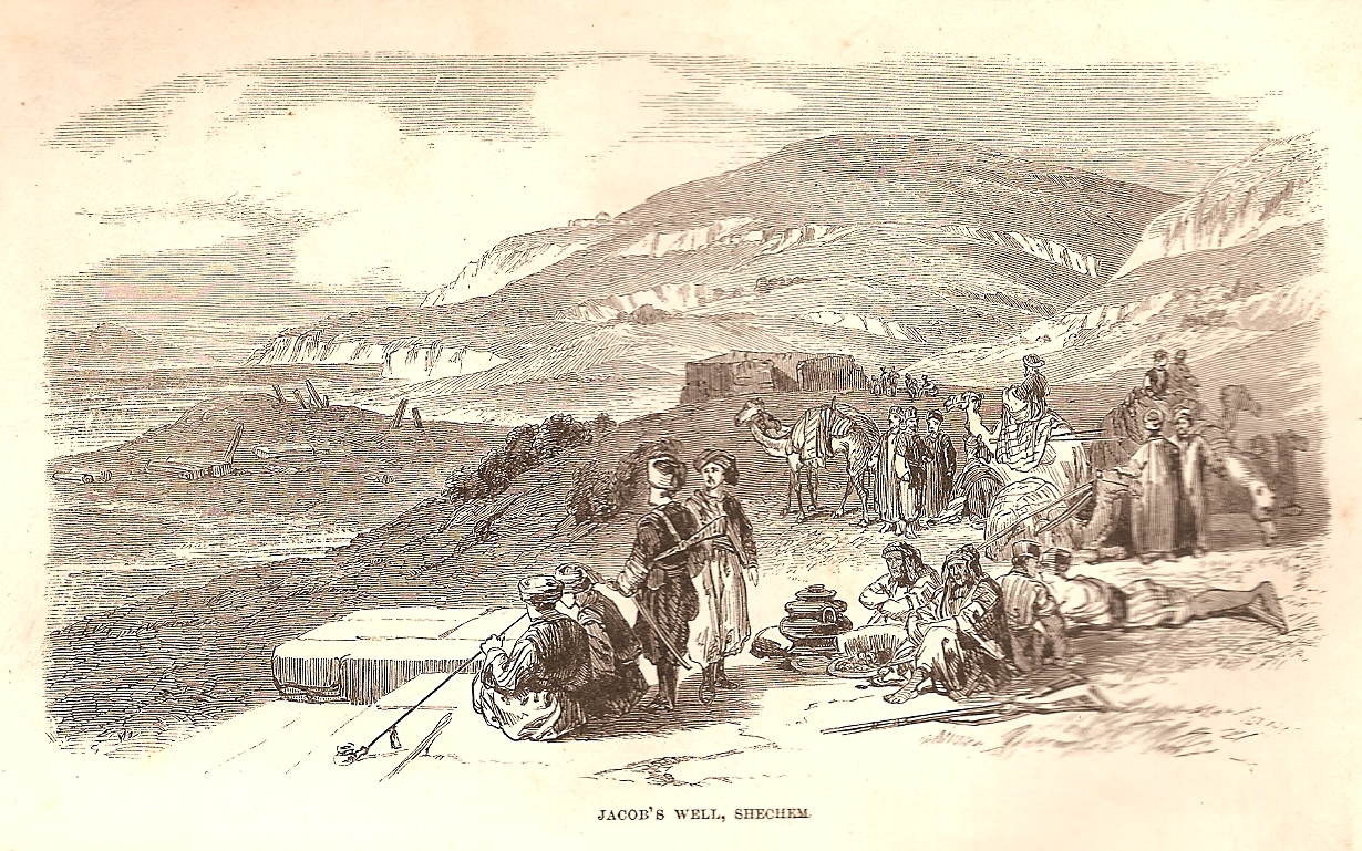 Jacob´s well, Shechem. Picture p. 207 in W. M. Thomson: The Land and the Book; or Biblical Illustrations Drawn from the Manners and Customs, the Scenes and Scenery of the Holy Land. Vol. II. New York, 1859. Picture based on David Roberts 1841 drawing.